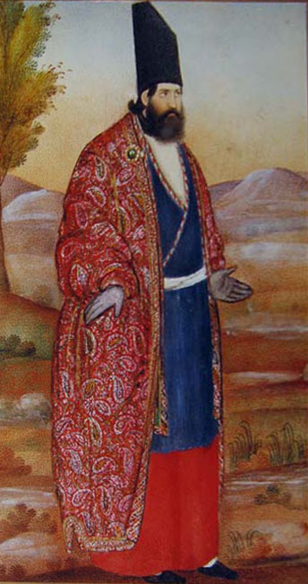 Amir Kabir's painting by Mirza AbulHasan khan Ghafari Kashani